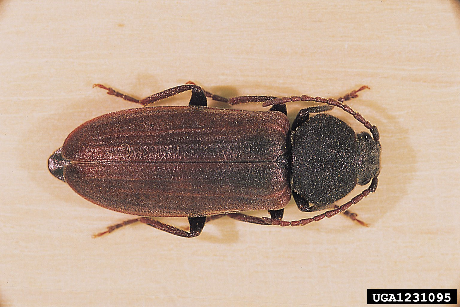 black spruce borer (Asemum striatum)